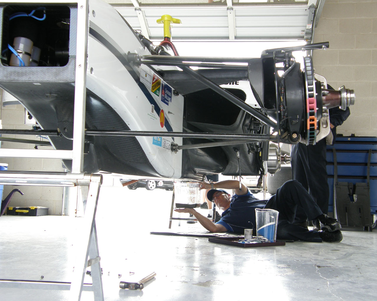 Underside maintenance of Panoz DP01 ChampCar.